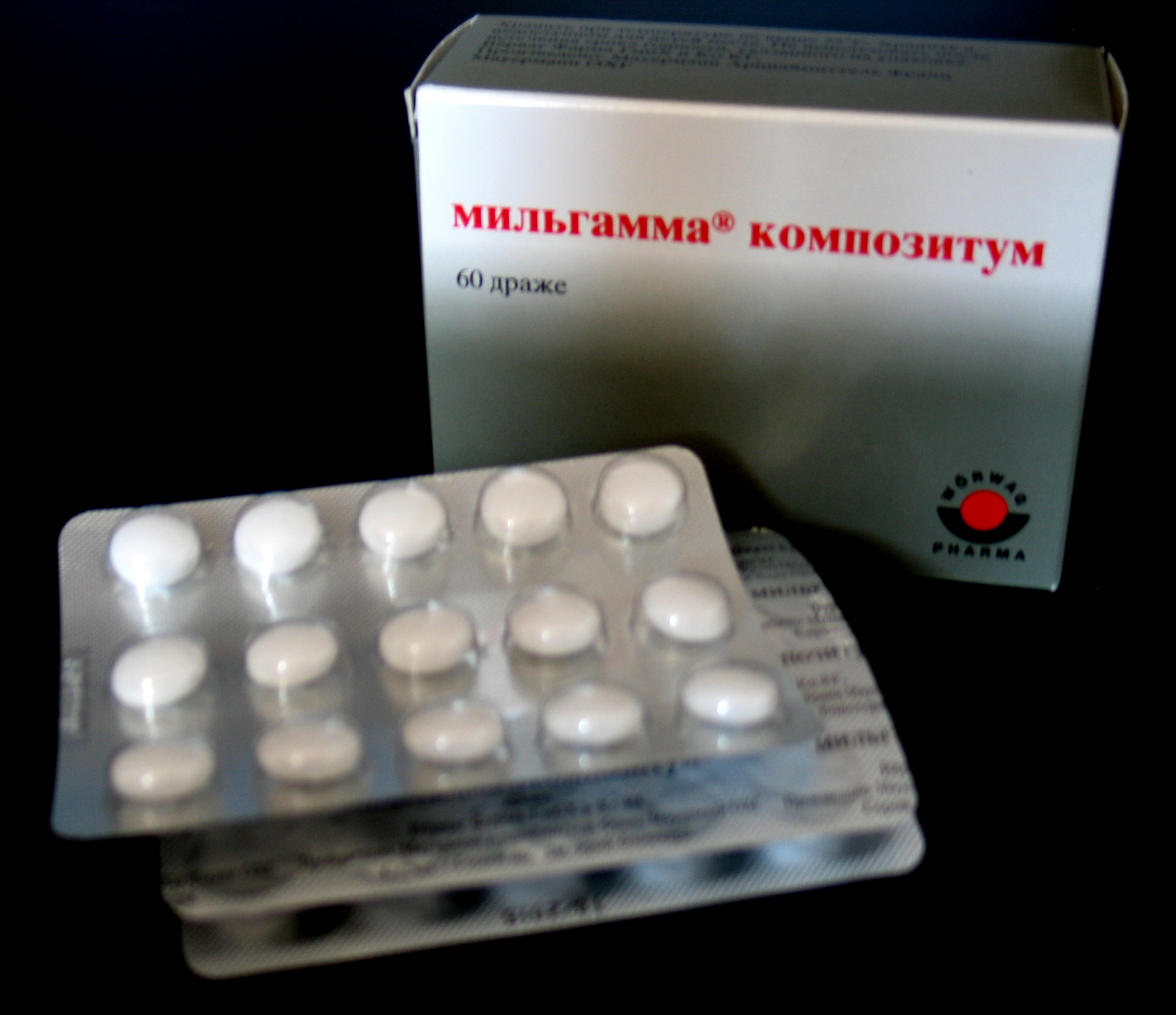 Milgamma compositum - Wörwag Pharma GmbH & Co. KG